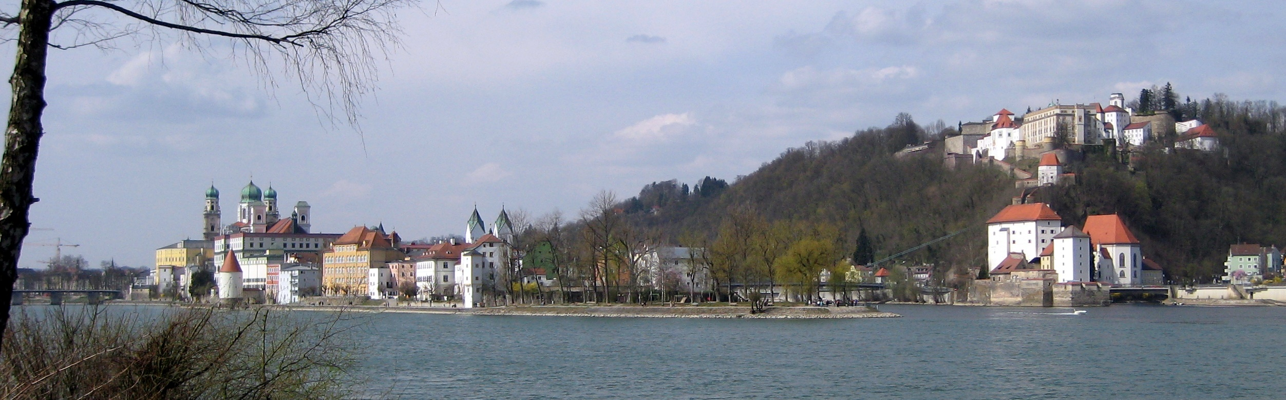 Passau, confluence of Danube, Inn und Ilz